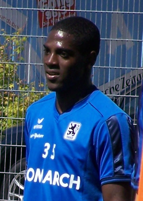 David Manga, 1860 München, training